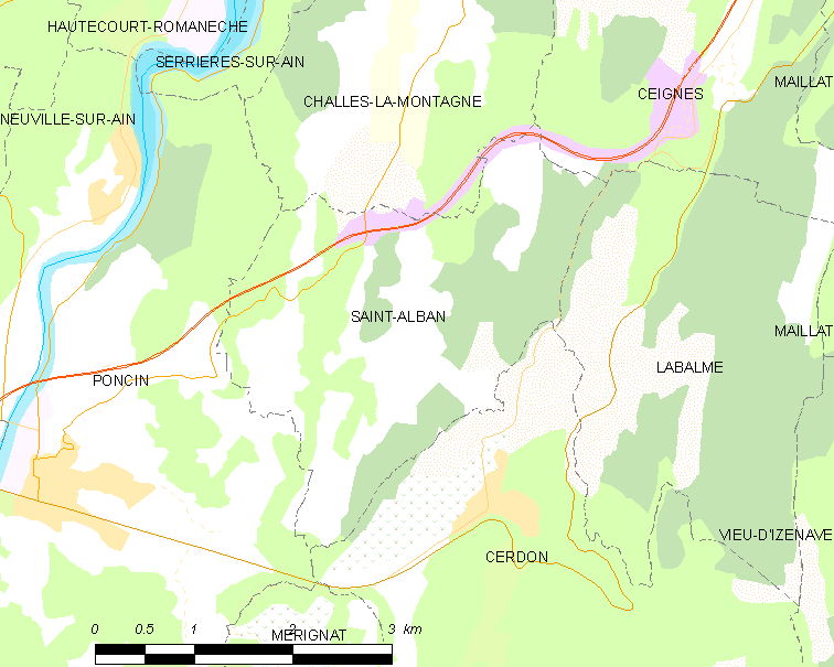 Map of French commune: Saint-Alban Map commune FR insee code 01331.png